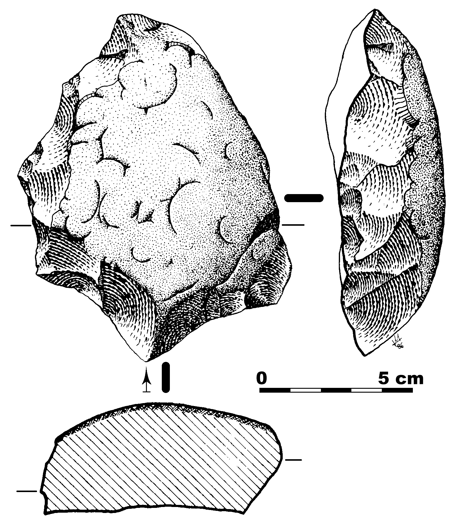 Denticulated tool that comes from an acheulean site on the river terraces of Tormes river, near Salamanca (Spain).